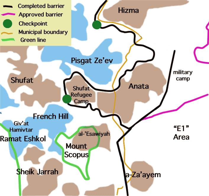 Portion of East Jerusalem as of late 2014